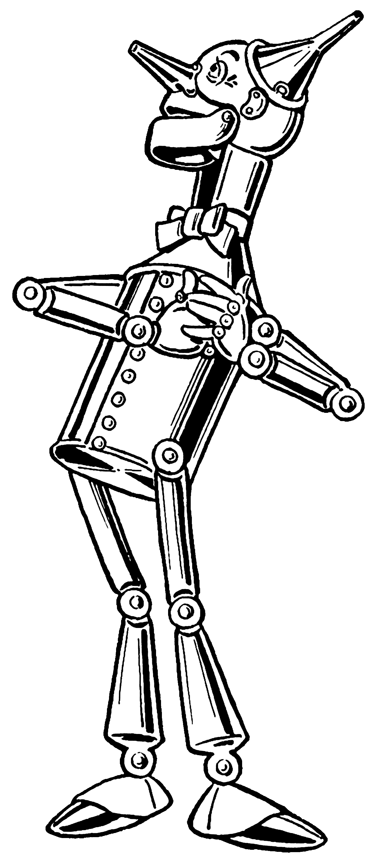 The Tin Woodman as pictured in The Wonderful Wizard of Oz by L. Frank Baum, with blue chapter plate and stray dots removed.